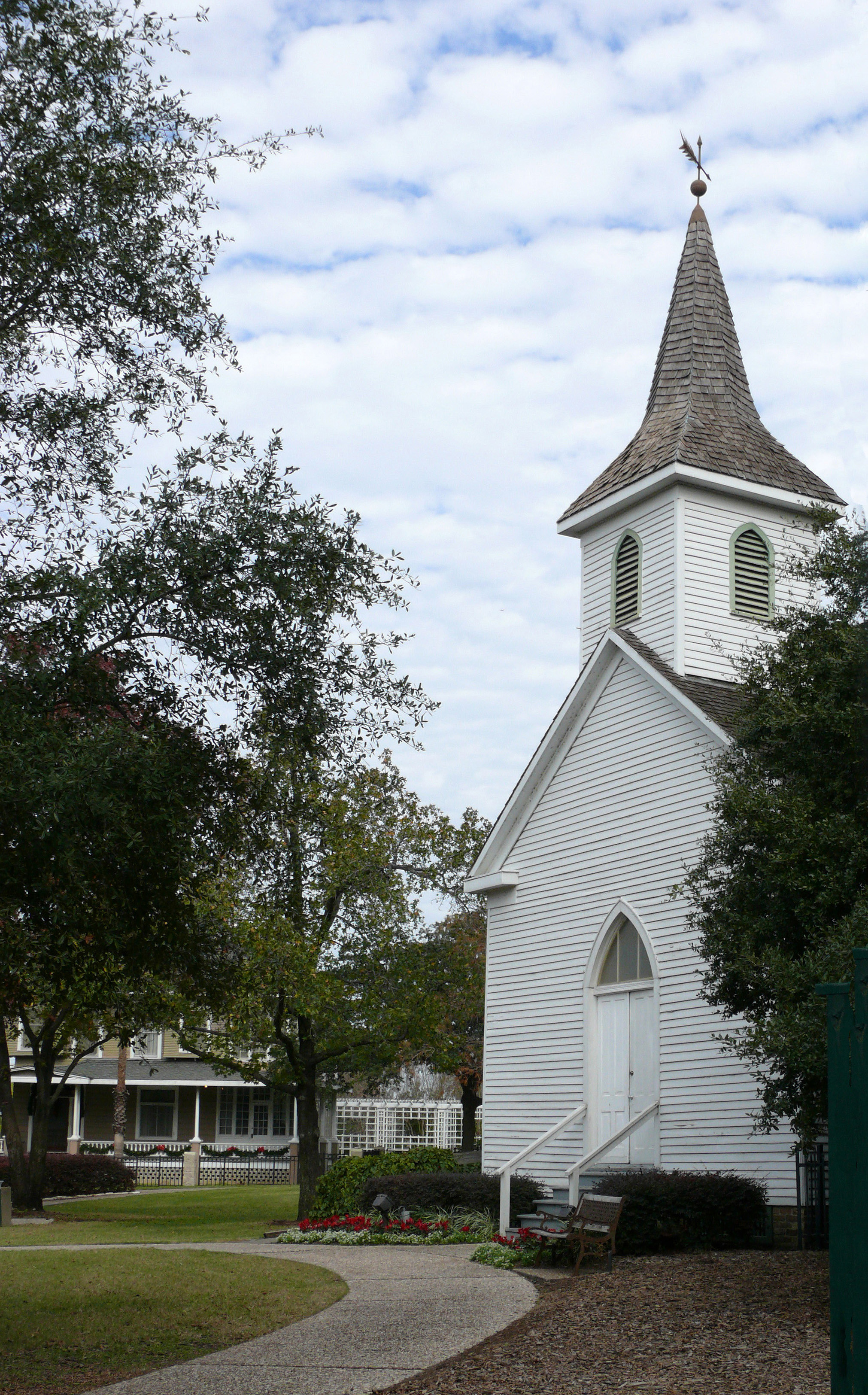 The 1891 St. John Church was built by German farmers in northwest Harris County for their Evangelical Lutheran congregation. The church is a vernacular interpretation of the Gothic Revival style of architecture from the 19th century. Elements of the Gothic Revival style are evident in the church’s arched windows and shutters. The structure was moved from its original site on Mangum Road to Sam Houston Park in 1968. The handmade cypress plank pews in the interior attest to the “can do” spirit that built this elegantly simple place of worship.